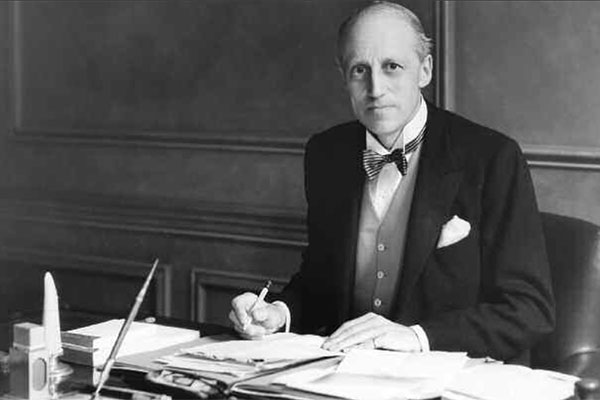 Photo of Sir John Evelyn Leslie Wrench (1882–1966) as Chairman of the English-Speaking Union, which he founded in 1920.